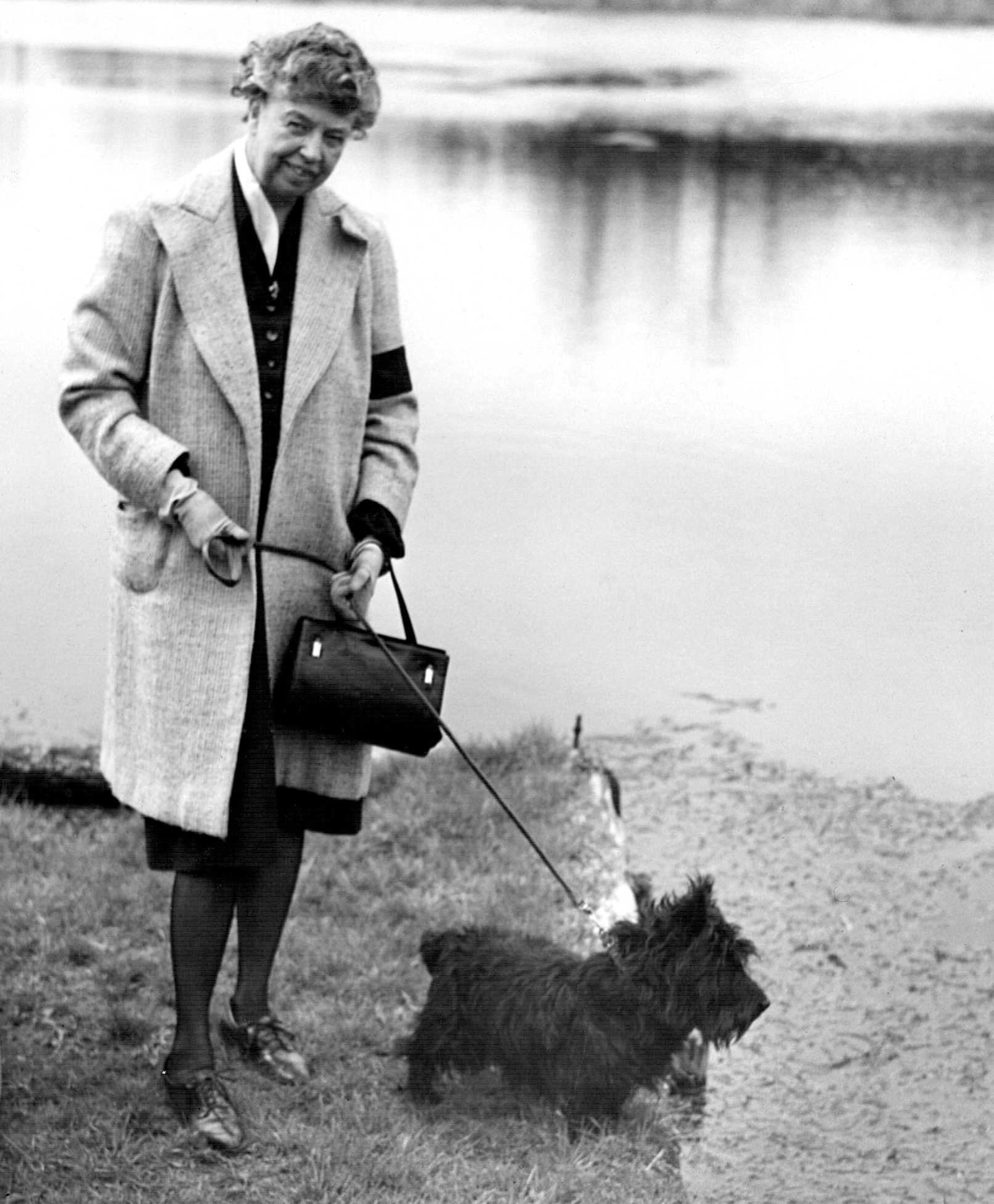 Eleanor Roosevelt with her dog Fala. FDR Library photo, 1947.